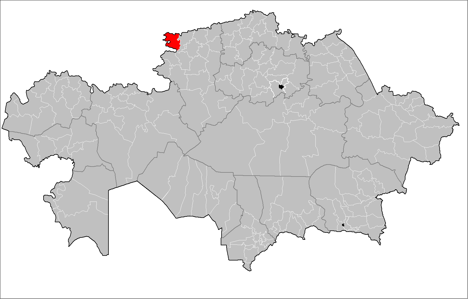 Map of the rayons of Kazakhstan. Created by Rarelibra 16:49, 3 August 2007 (UTC) for public domain use, using MapInfo Professional v8.5 and various mapping resources.